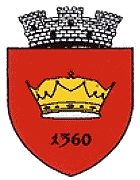 Coat of arms of Deta, Romania